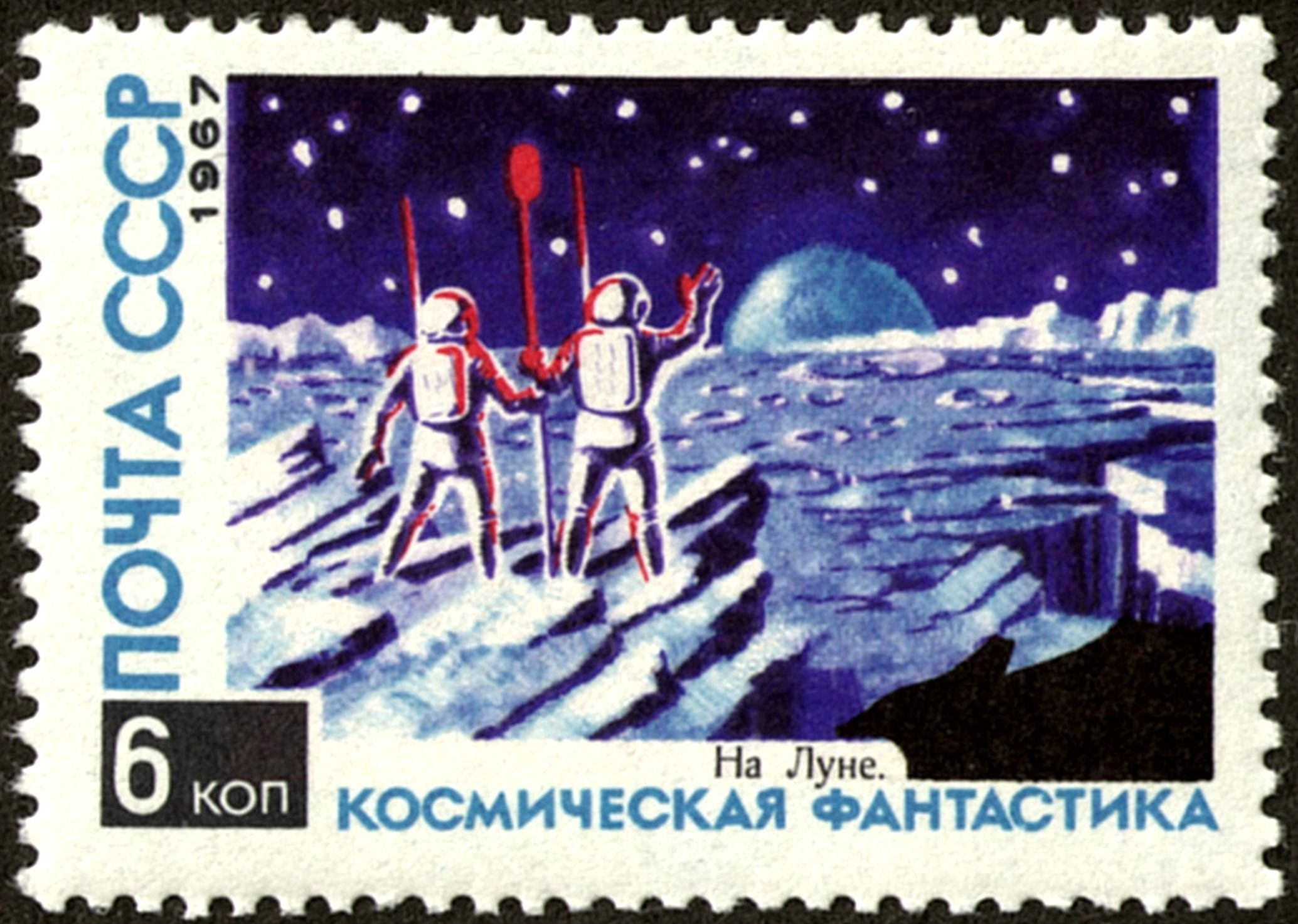 Science fiction.Selenodesists (On the Moon) by Alexey Leonov. Oil, cardboard. 1966–1967[1].The stamp of the Soviet Union, 6 kopecks, 20 October 1967, CPA Catalogue No 3546, Michel No 3404, Scott No 3383, Yvert No 3283. Coated paper. Offset printing. Perforation: comb 12½×12. Size of the stamp: 40×32 mm. Print run: 4,000,000.